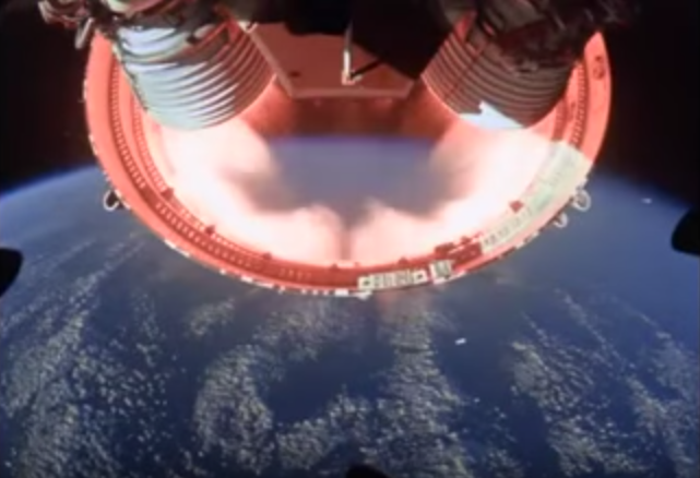 Apollo 4 S-ICS-II Staging lower camera